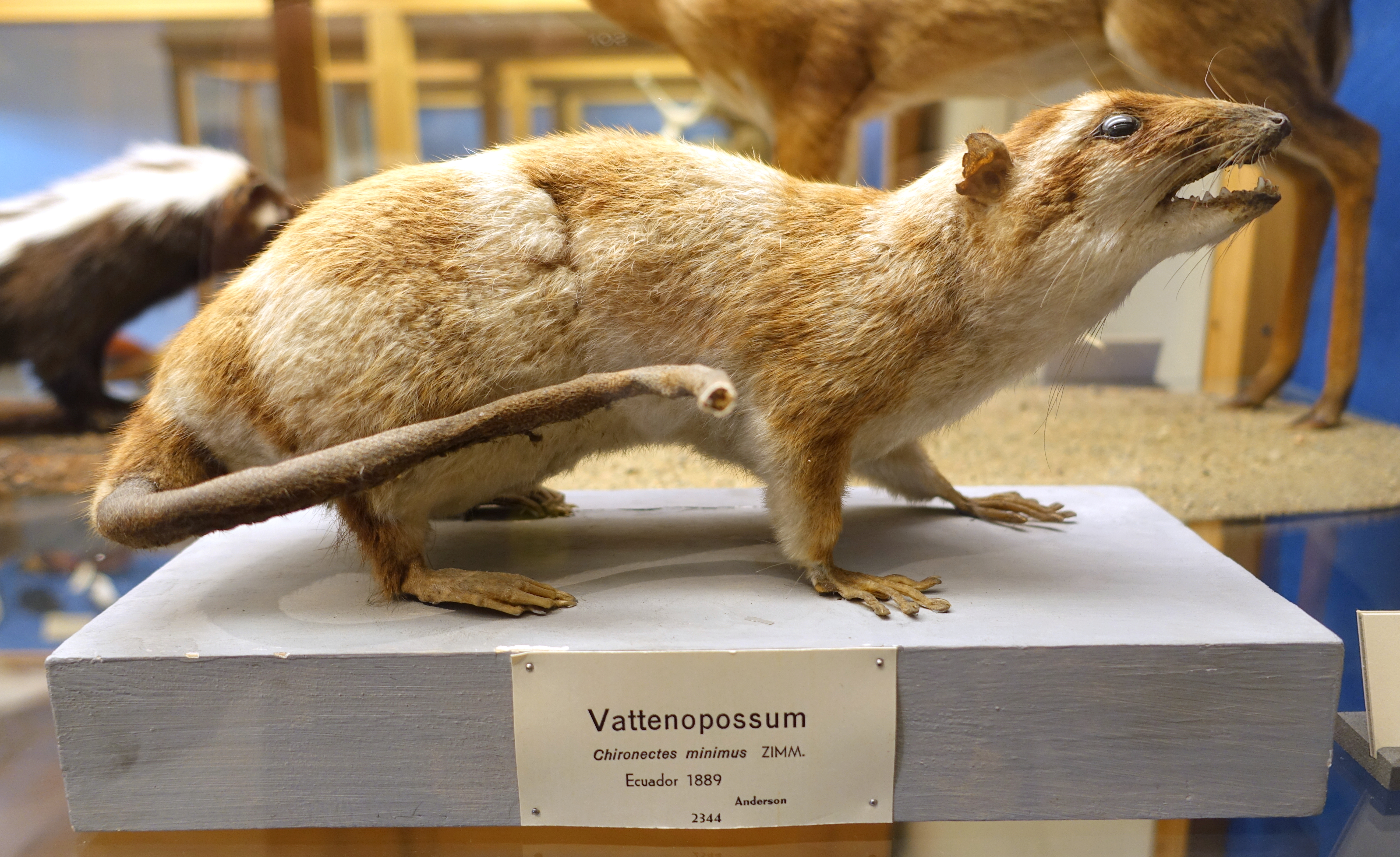 Exhibit in the Swedish Museum of Natural History - Stockholm, Sweden.